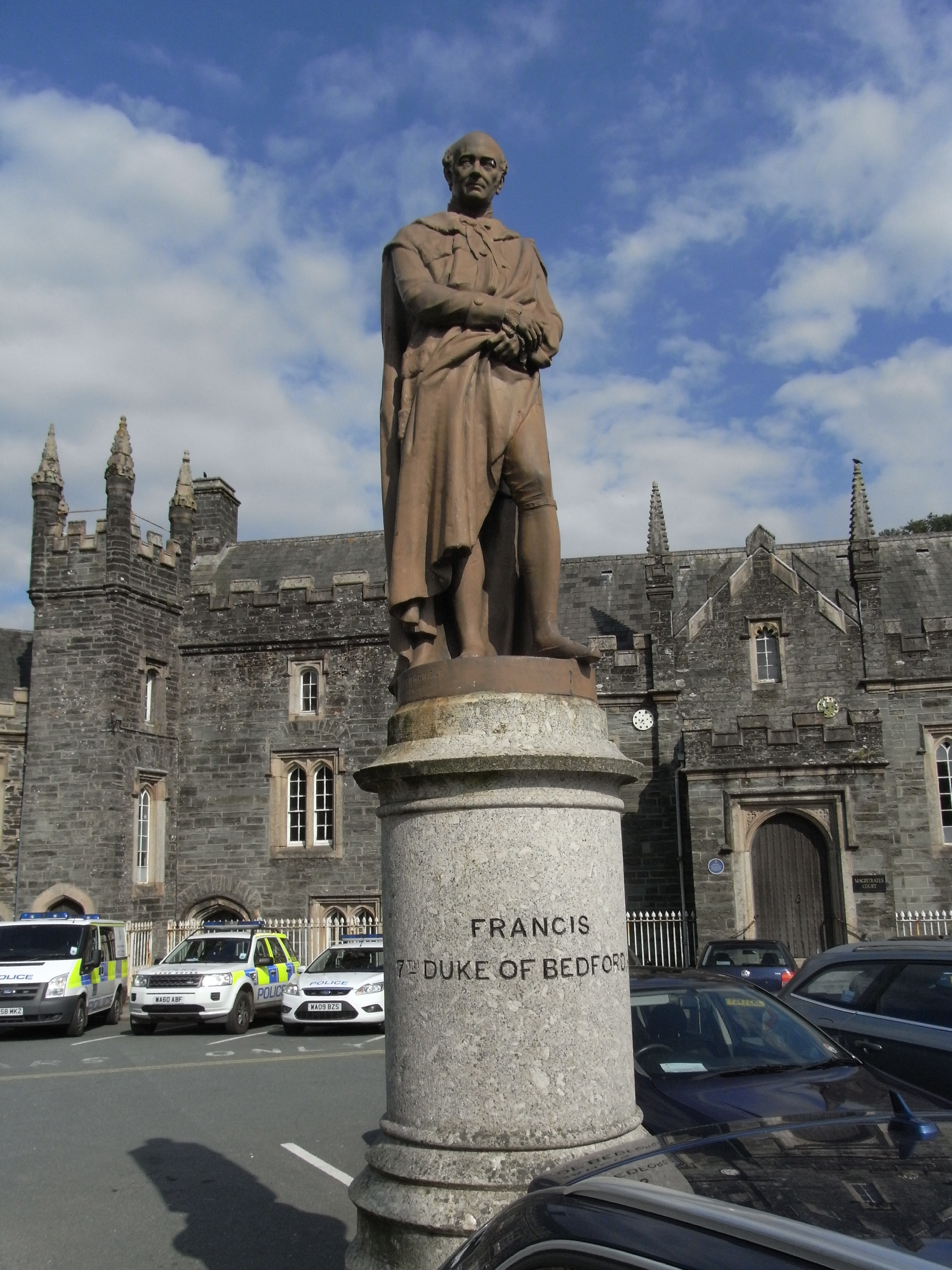 Statue of Francis Russell, 7th Duke of Bedford(d.1861), by Edward Bowring Stephens (1815-1882), before Magistrate's Court, Tavistock, Devon. Erected by public subscription 1864